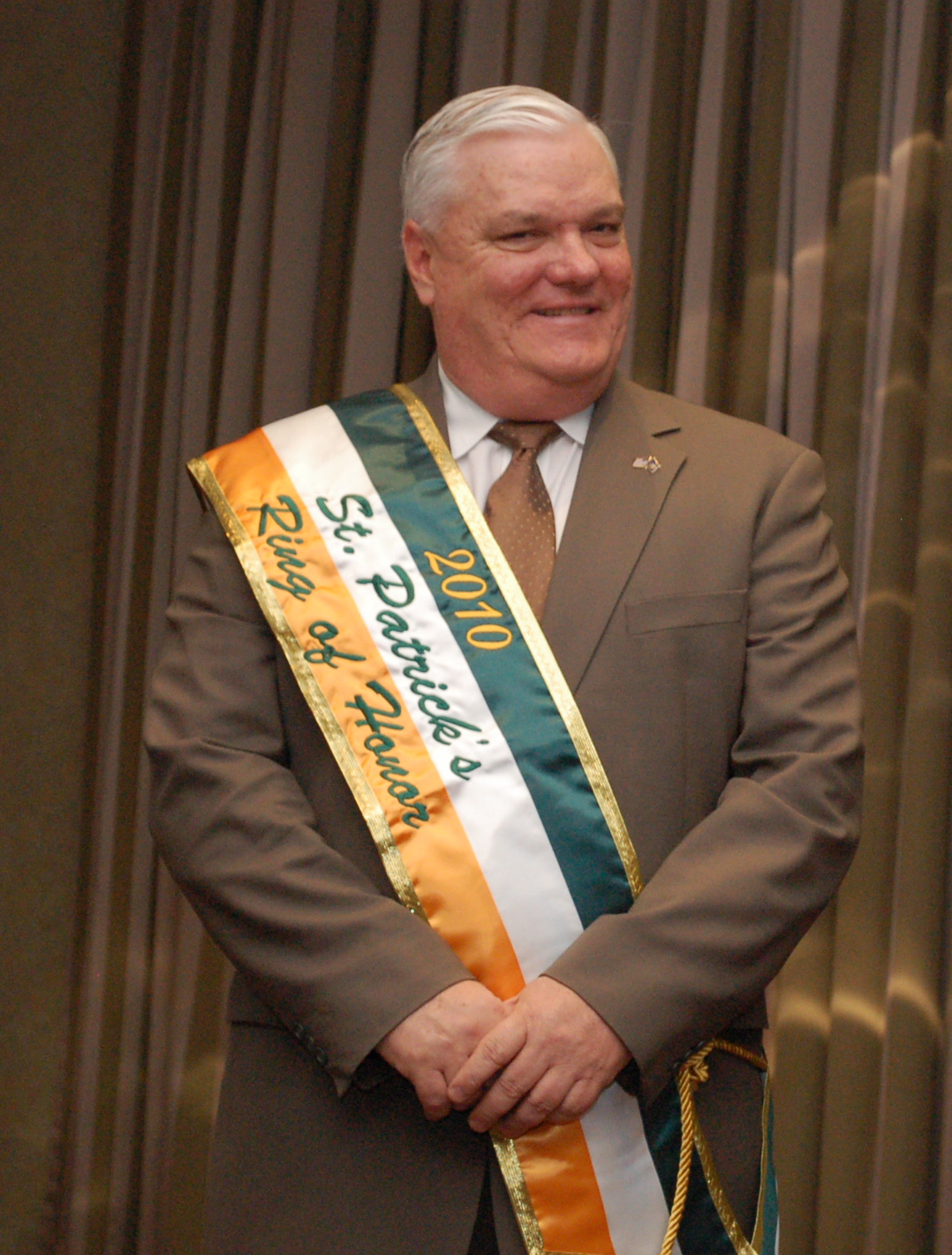 Bill Keller, state representative from Philadelphia.